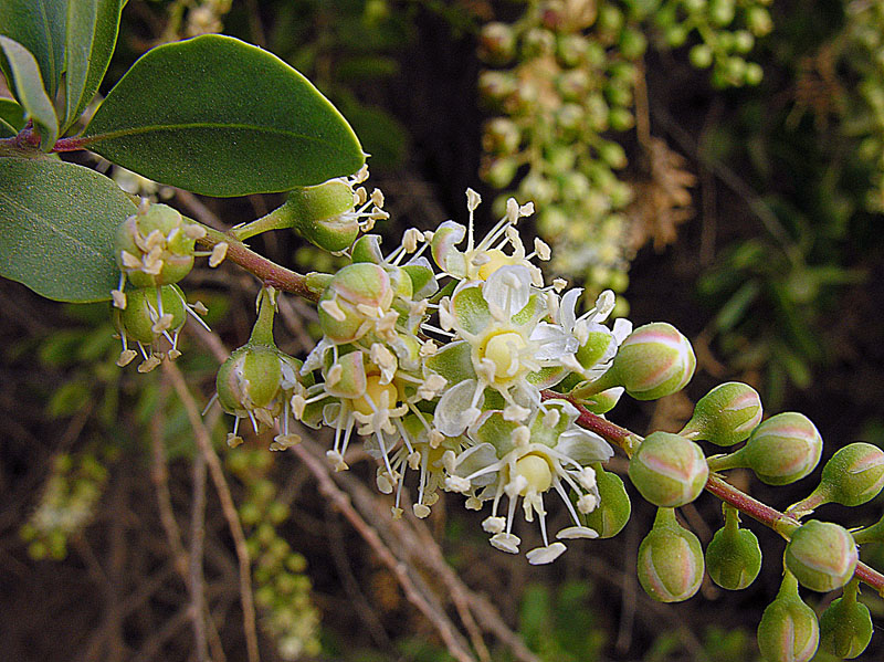 Native to Mexico and Guatemala, it also goes by the imaginative name of Ojos de Zanate (grackle eyes). In context at